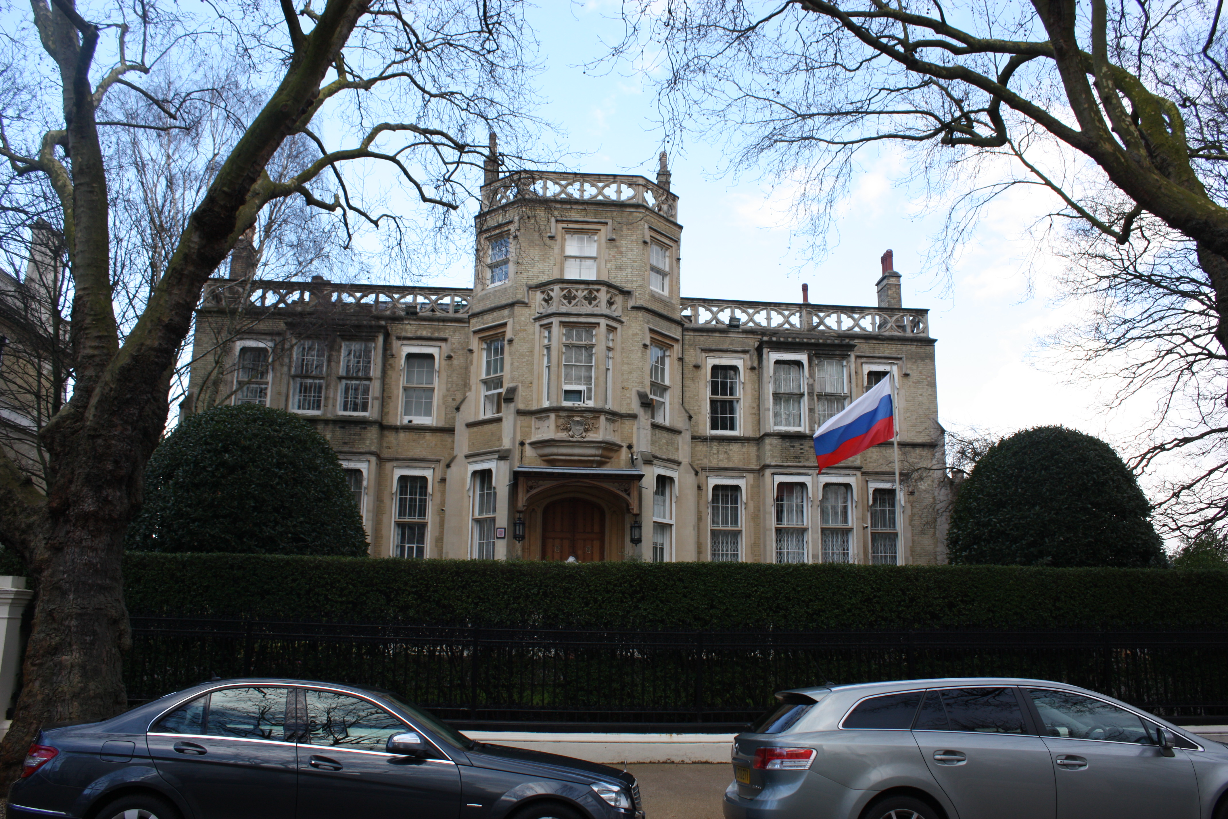 Russian Embassy in London - residenece in Kensington Palace Gardens